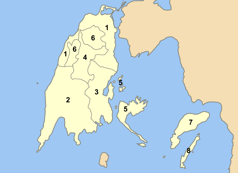 Map of Lefkada prefecture (Greece) with administrative divisions (municipalities and communities) numbered in alphabetical order (in greek). Legend: 1. Δήμος Λευκάδας - Lefkada 2. Δήμος Απολλωνίων - Apollonii 3. Δήμος Ελλομένου - Ellomenos 4. Δήμος Καρυάς - Karya 5. Δήμος Μεγανησίου - Meganisi 6. Δήμος Σφακιωτών - Sfakiotes 7. Κοινότητα Καλάμου - Kalamos 8. Κοινότητα Καστού - Kastos